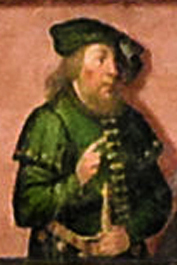 Barnim IV of Pomerania